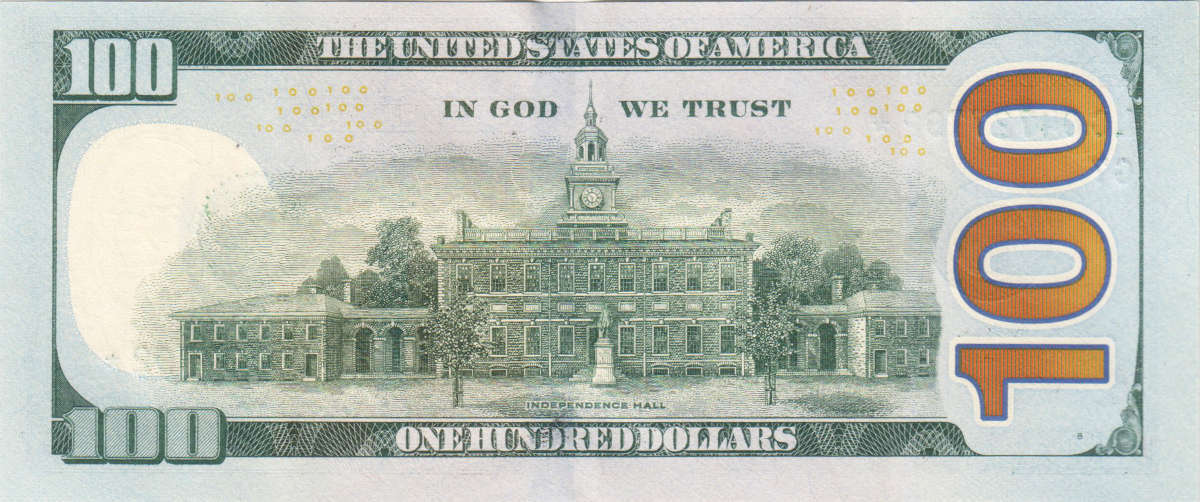 Reverse of the series 2009 $100 Federal Reserve Note